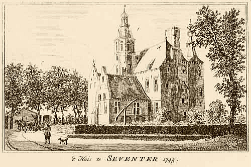 Castle Sevenaer at Zevenaar